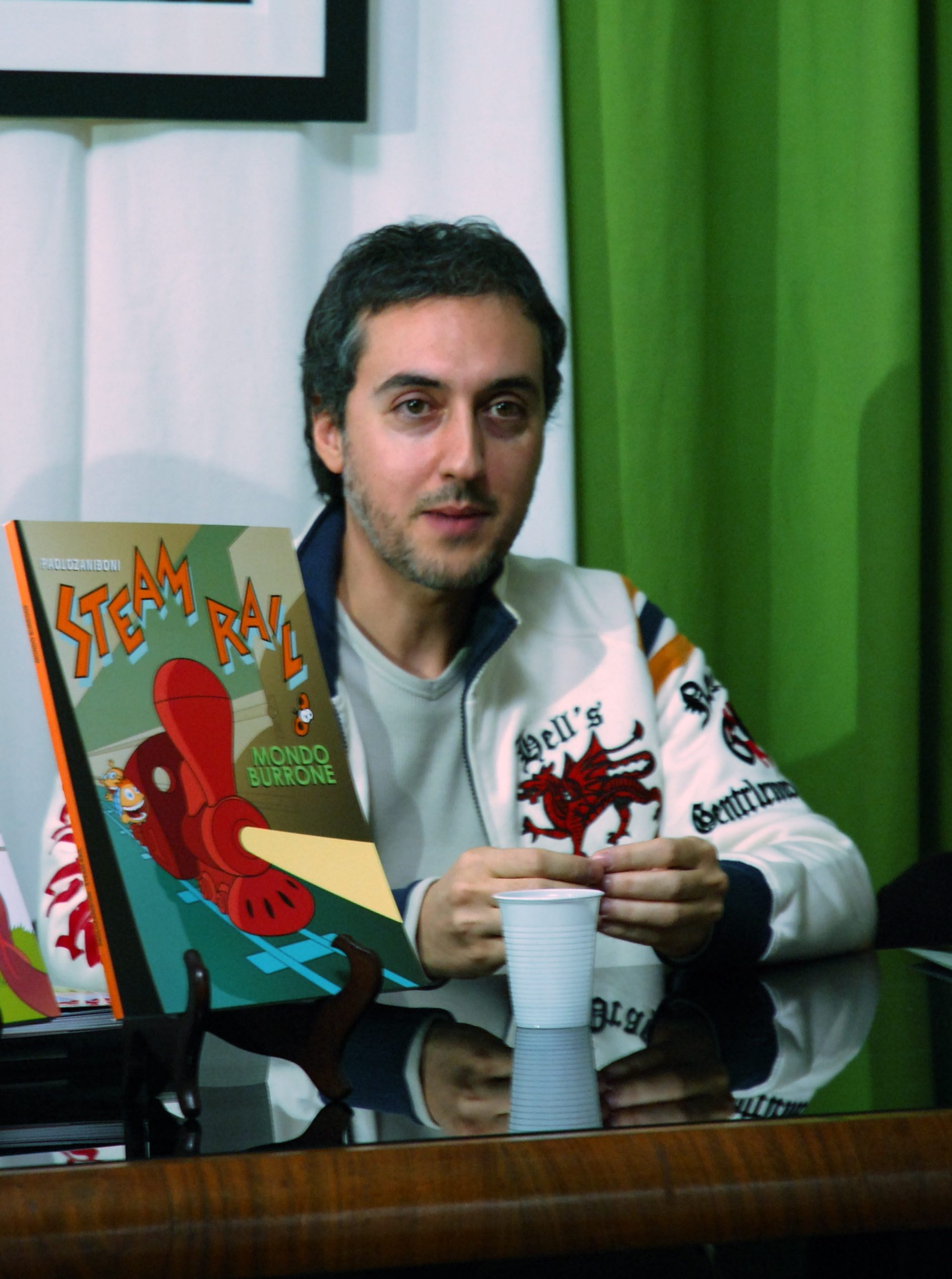 Paolo Zaniboni during presentation of "Steam Rail" in Turin, Italy